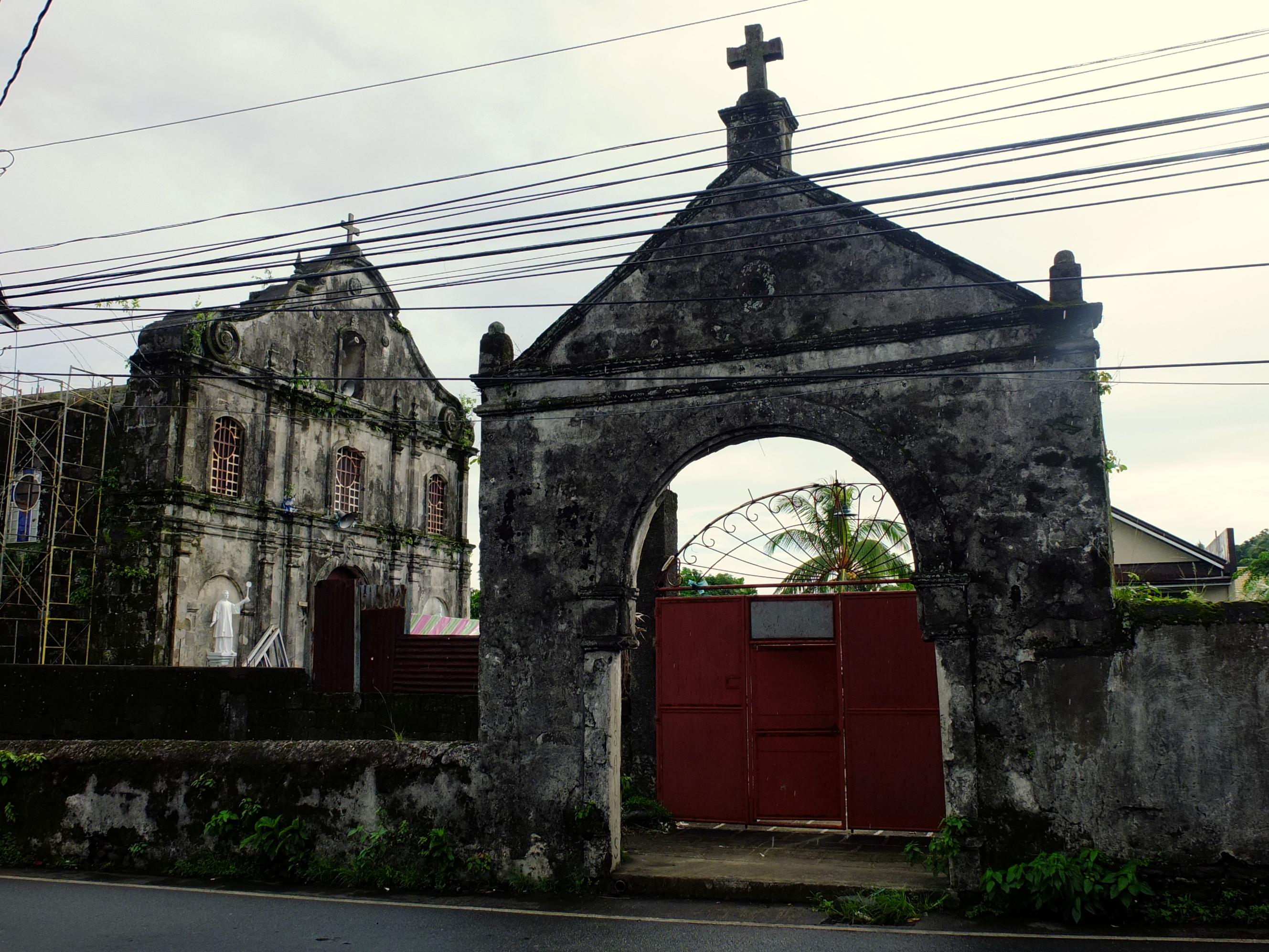 Mortuary chapel of Santuario de las Almas in Tayabas, Quezon